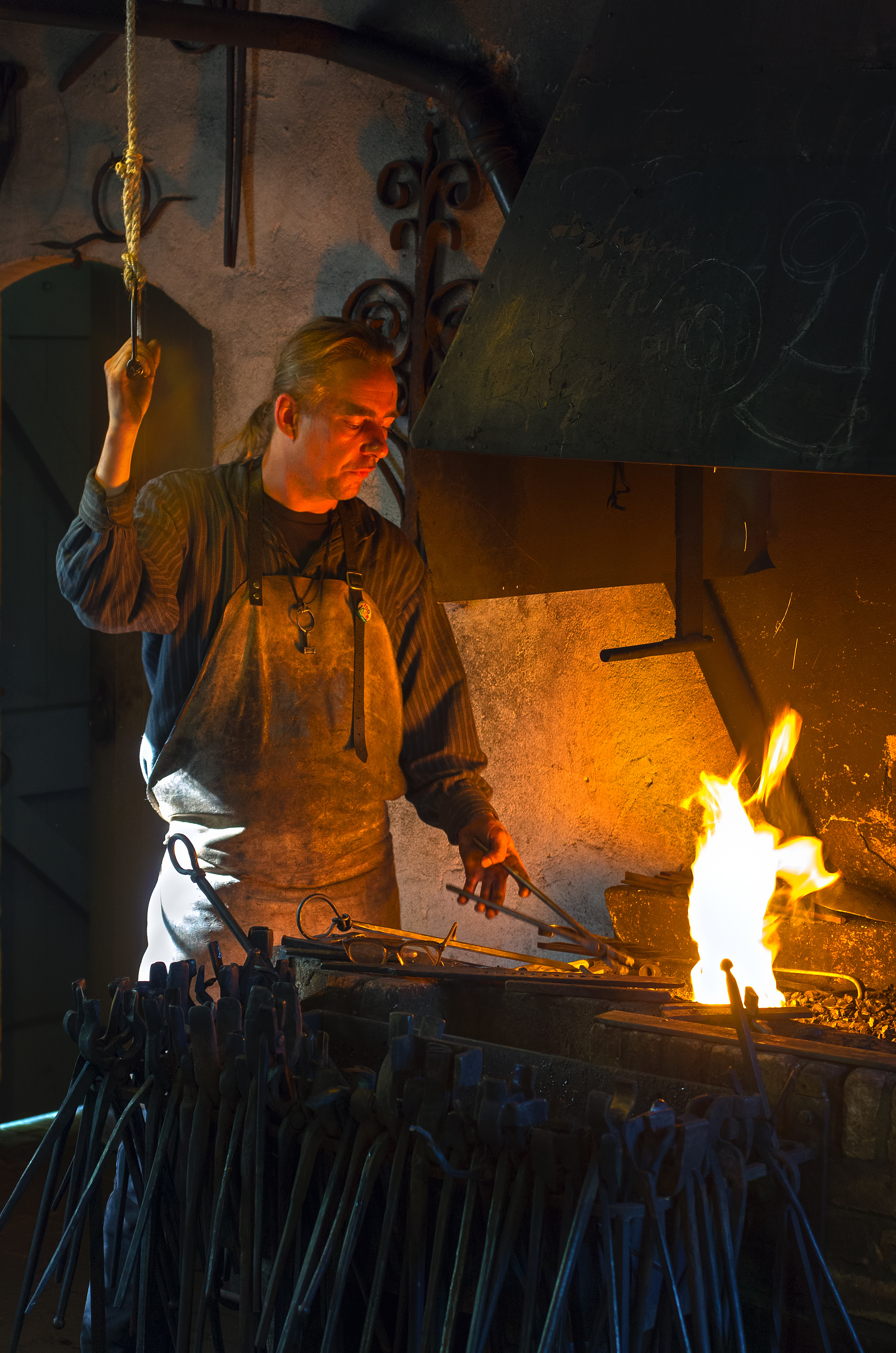 Blacksmith at work.